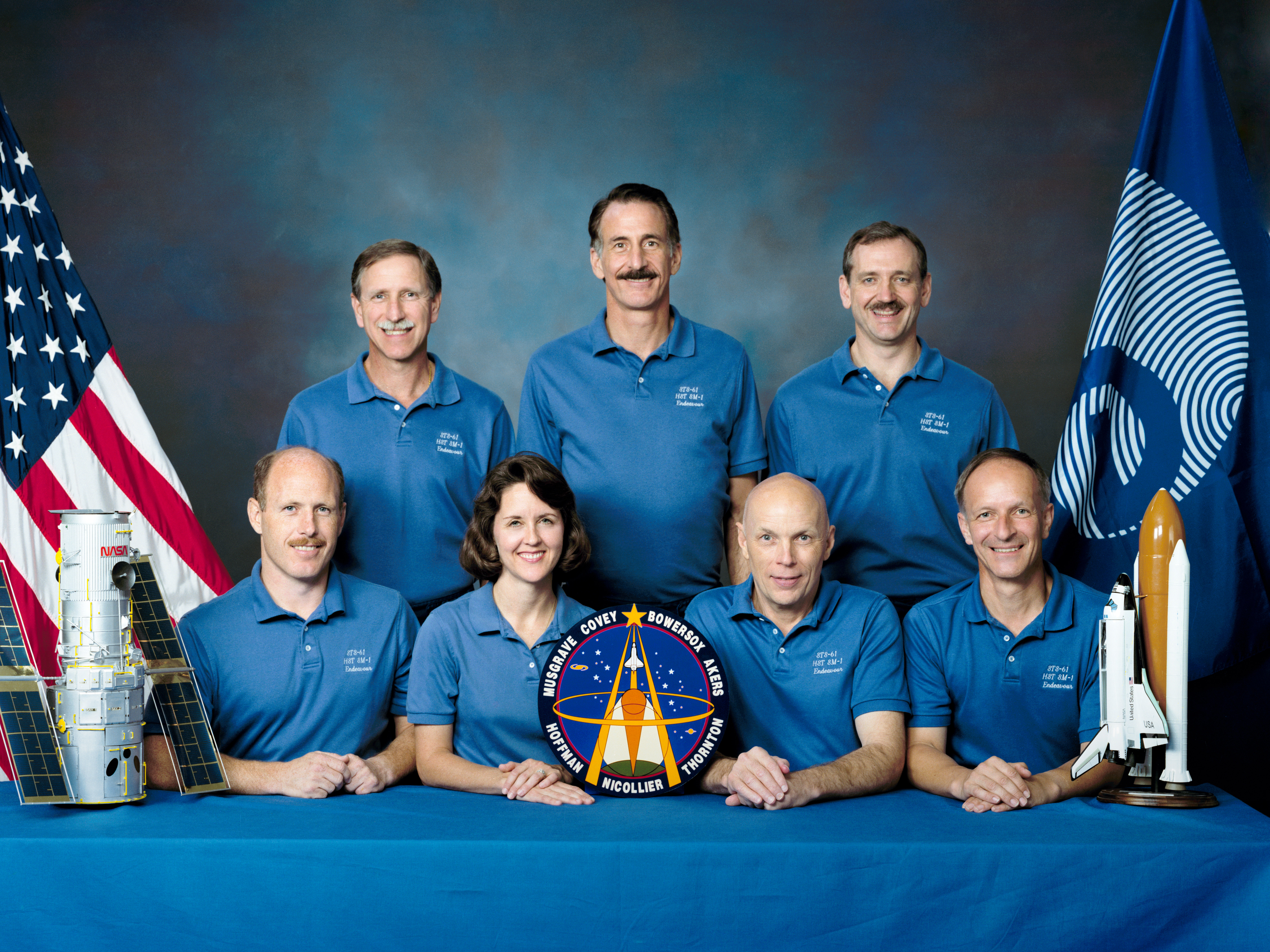 Astronauts included in the STS-61 crew portrait include (standing in rear left to right) Richard O. Covey, commander; and mission specialists Jeffrey A. Hoffman, and Thomas D. Akers. Seated left to right are Kenneth D. Bowersox, pilot; Kathryn C. Thornton, mission specialist; F. Story Musgrave, payload commander; and Claude Nicollier, mission specialist. Launched aboard the Space Shuttle Endeavor on December 2, 1993 at 4:27:00 am (EST), the STS-61 mission was the first Hubble Space Telescope (HST) servicing mission, and the last mission of 1993.